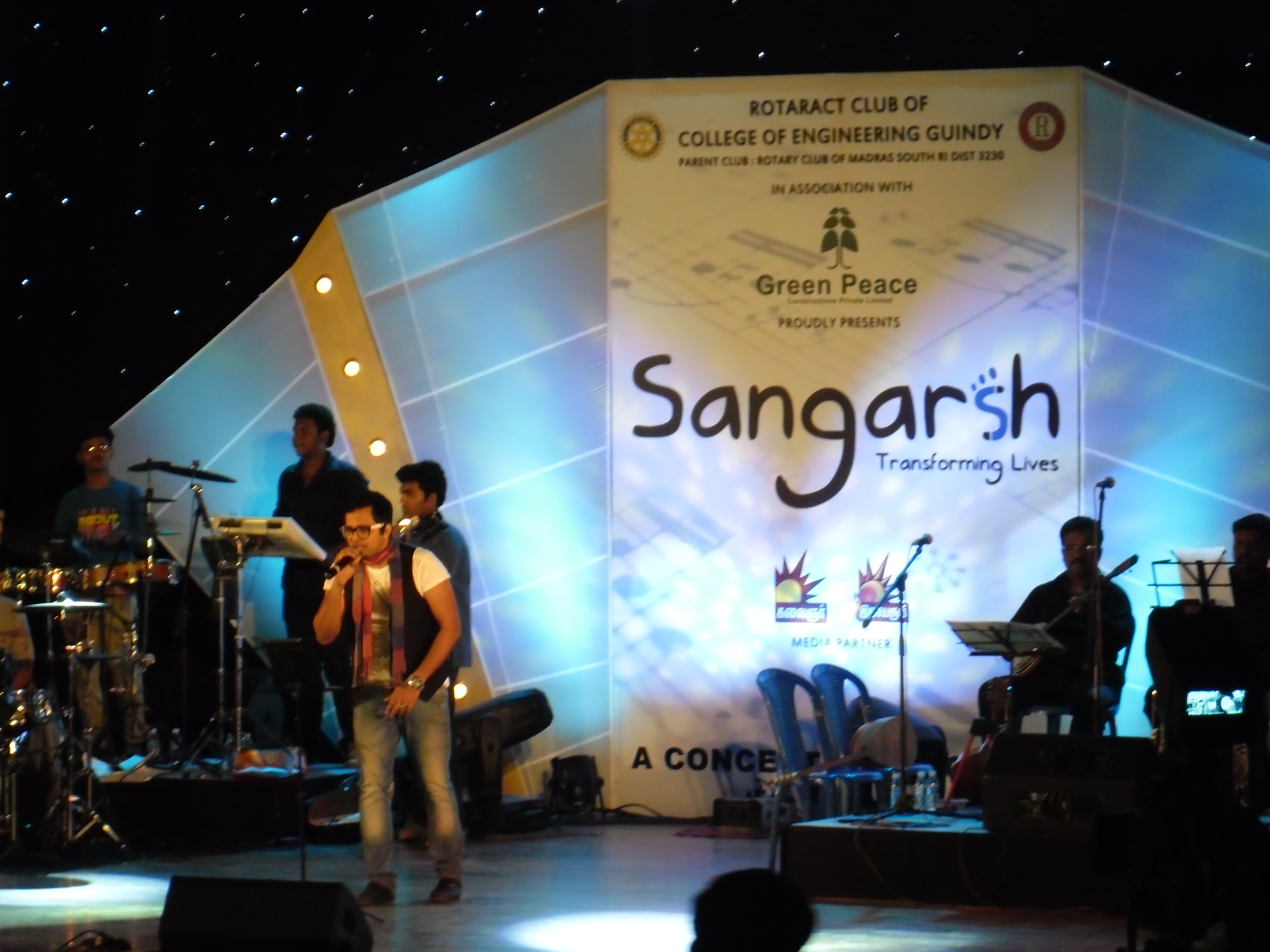 Singer Ranjith is performing in Sangarsh